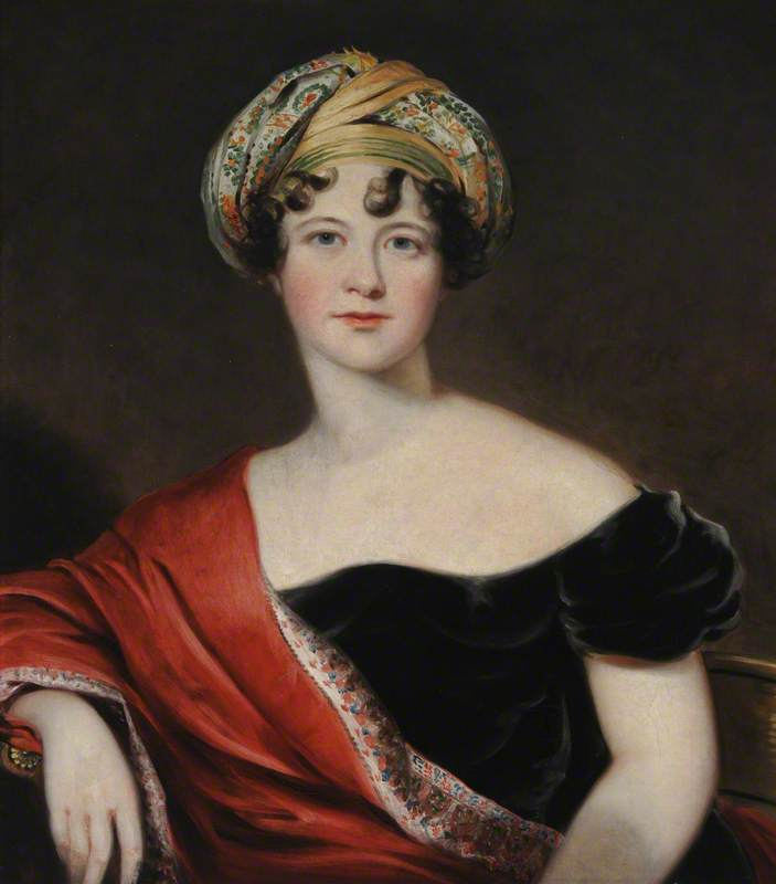 Painting of Lady Harriet Cavendish, Countess Granville (c. 1809/1810, Thomas Barber)